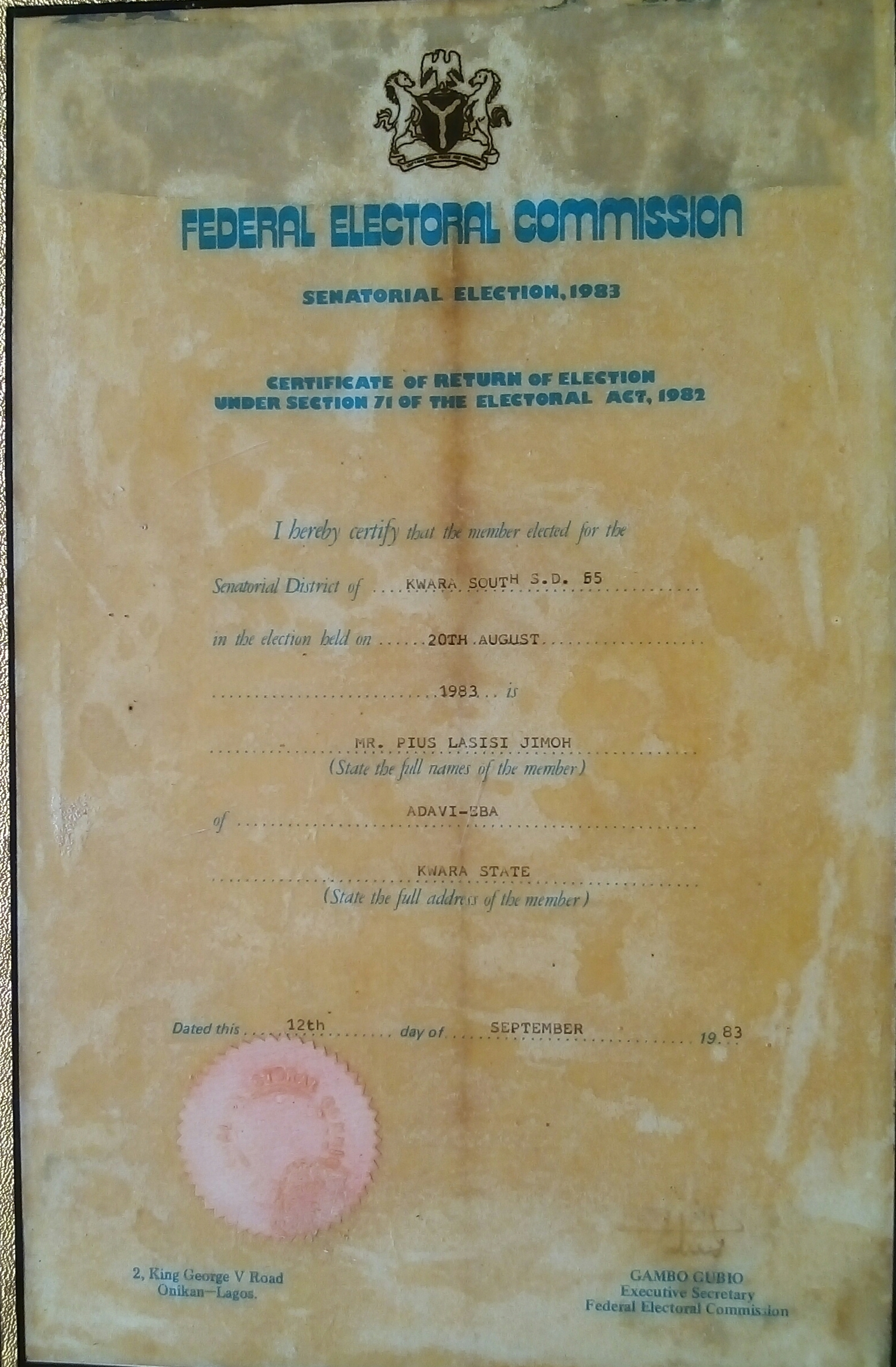 Certificate of Return of Election of the Late. Senator Pius Lasisi Jimoh of the Federal Republic of Nigeria